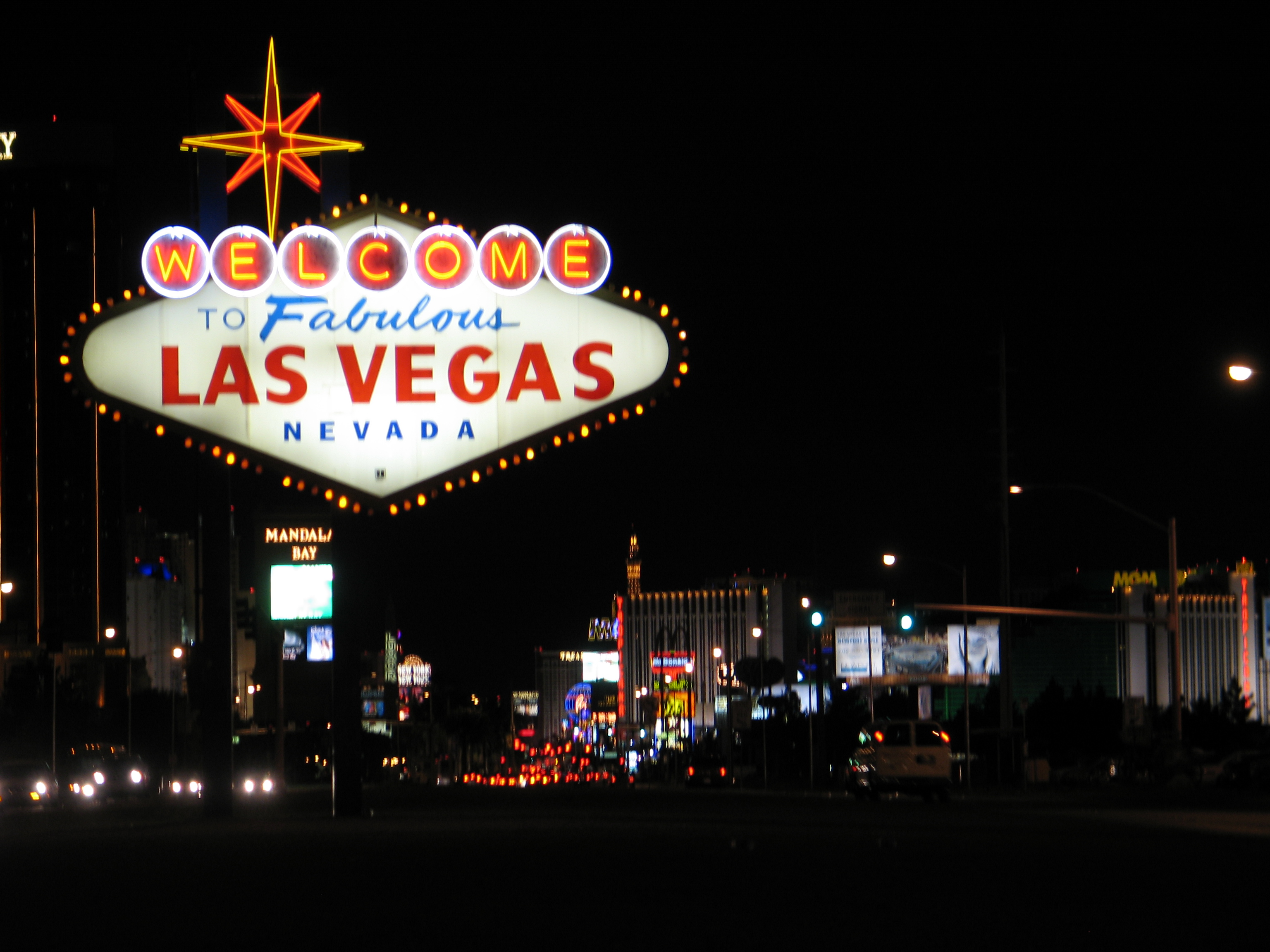 Welcome to the Las Vegas strip – born in 1965, Las Vegas is one of the most famous cities in the world Shot with a Canon PowerShot G6 by Wikinews contributor Wikinews:User:David_Vasquez in April, 2005.